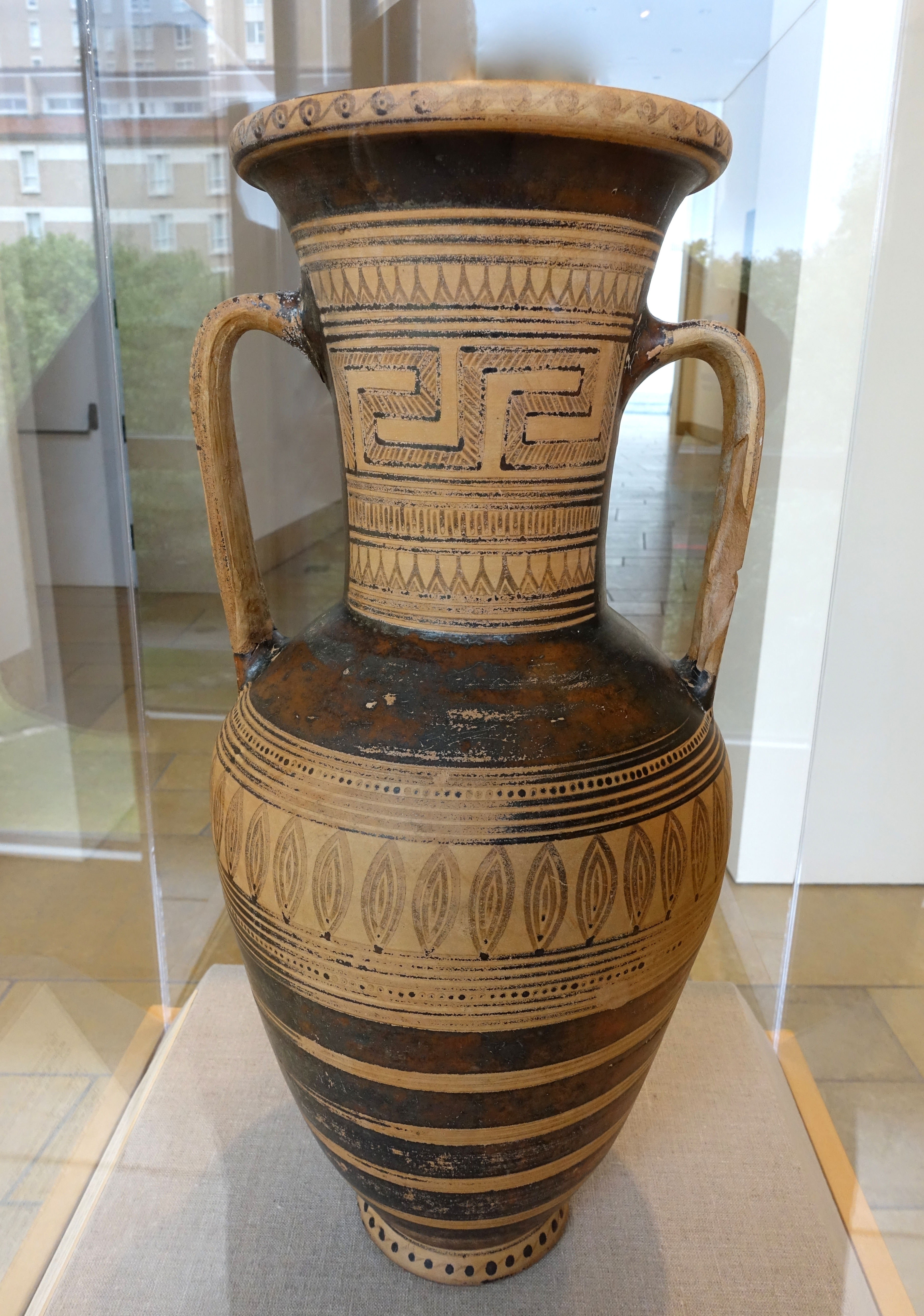 Exhibit in the Blanton Museum of Art - Austin, Texas, USA. This work is old enough so that it is in the public domain.